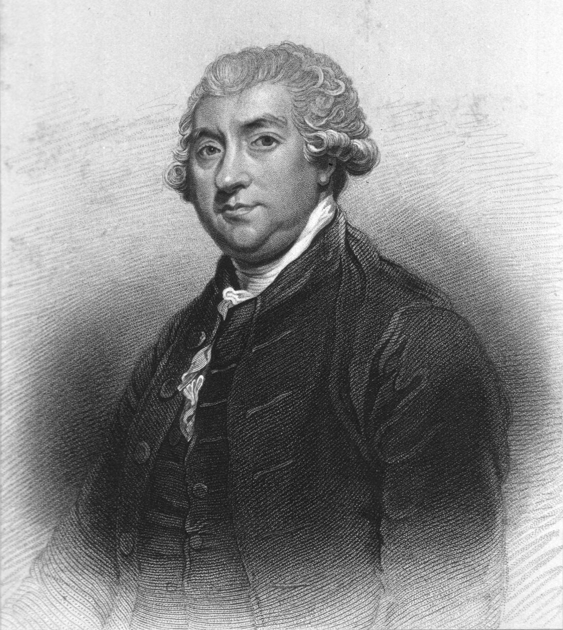 James Boswell, 9th Laird of Auchinleck, Scottish lawyer, diarist, and author